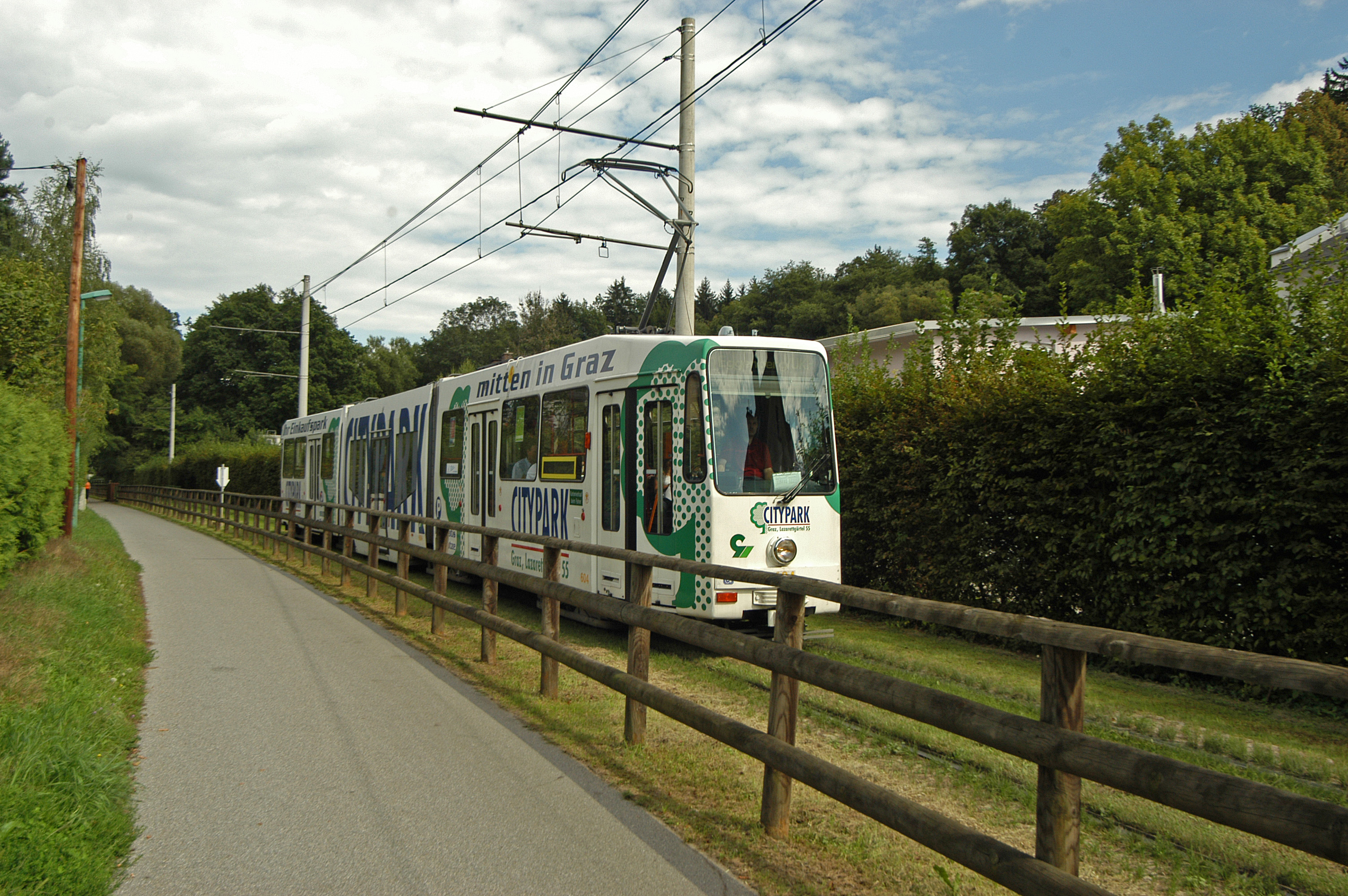 Please report references to kulacgmx.at.